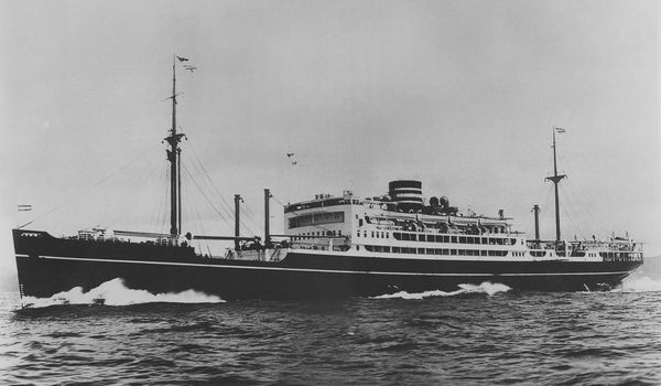 Picture of the NYK Line ship Terukuni Maru